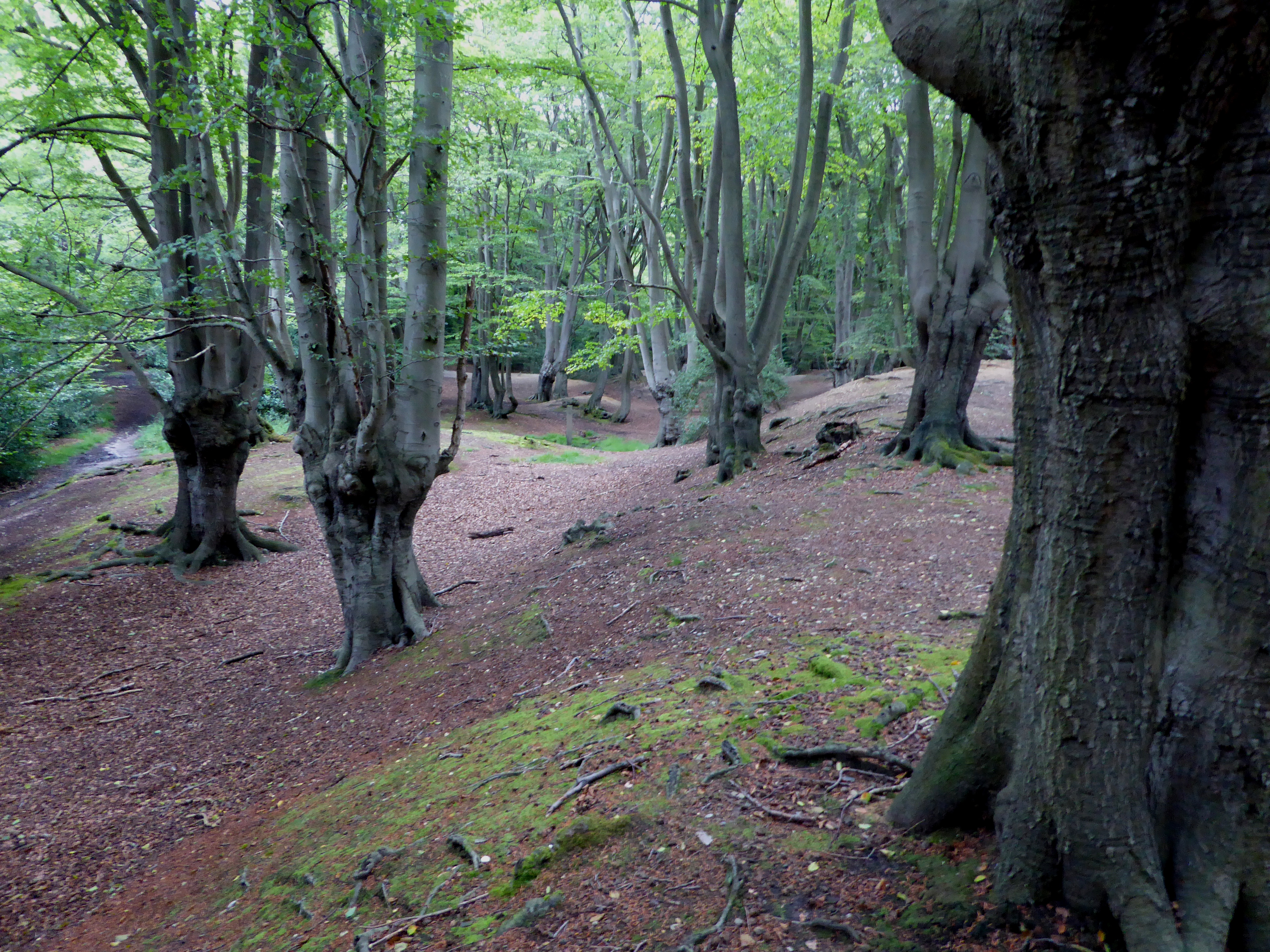 Photograph taken along the western bank of Loughton Camp in Epping Forest, Essex. Facing a general northward direction